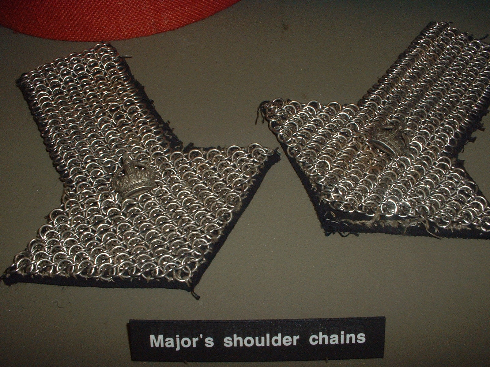 This photograph shows the epaulets for a British Army major. They are made from mail. Photograph was taken in the Somerset County Museum in Taunton on 29-Oct-05.